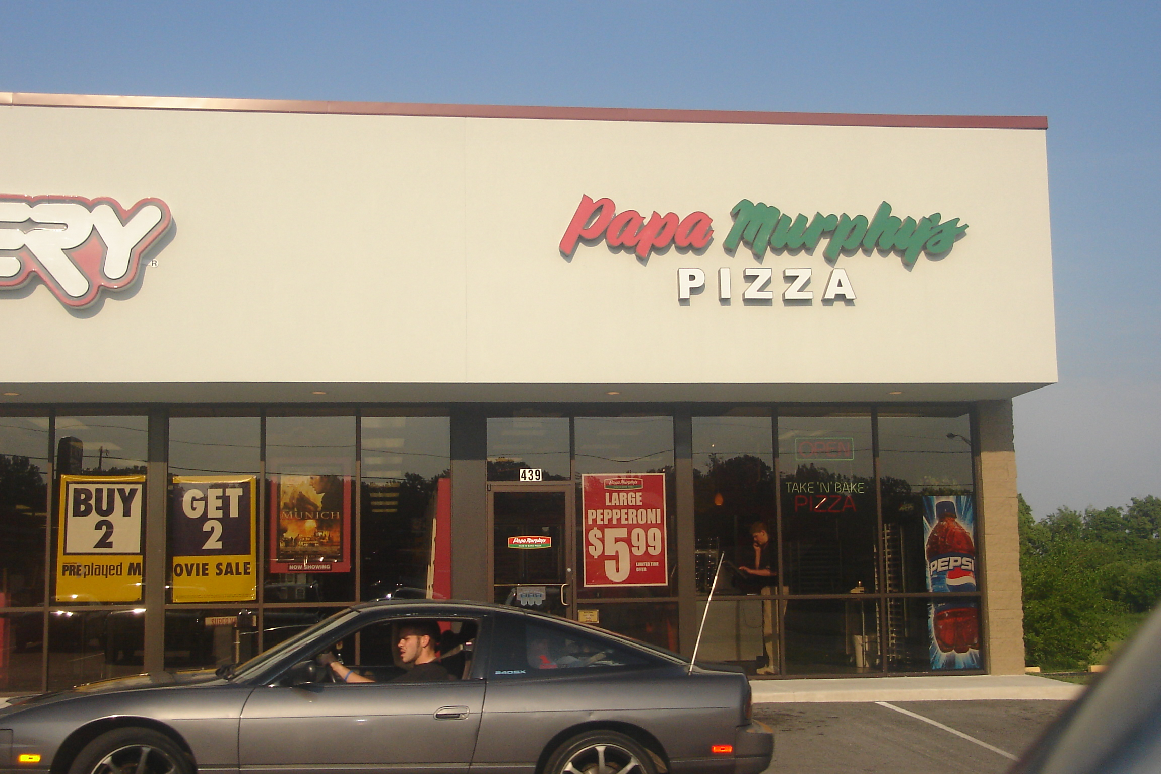 Papa Murphy's Pizza store in Mooresville, Indiana